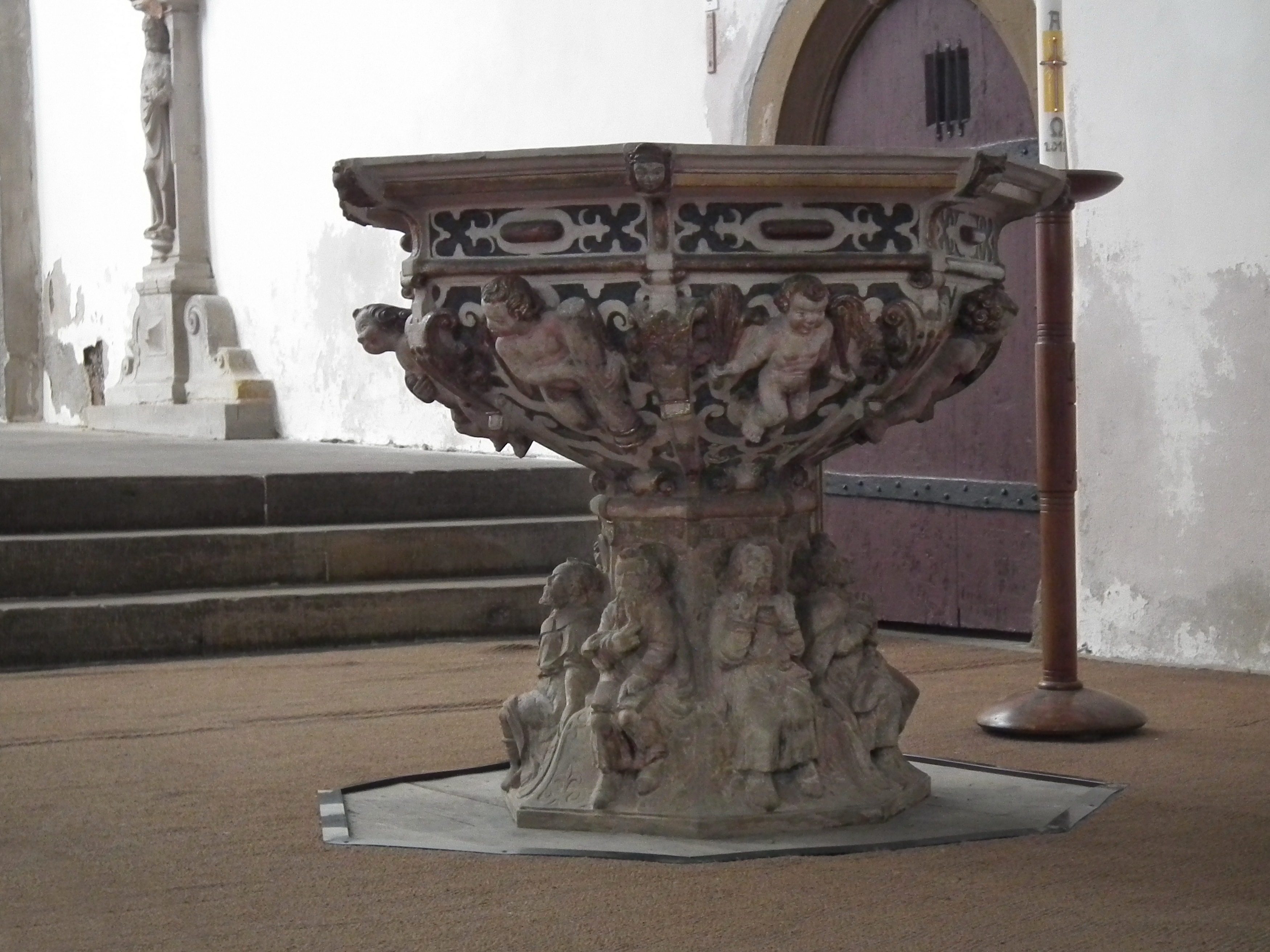 Kaufmannskirche Native nameKaufmannskircheLocationErfurt, GermanyCoordinates50° 58′ 41″ N, 11° 02′ 06″ E Authority control VIAF: 138607402 LCCN: n2009057986 GND: 4724038-6 WorldCat